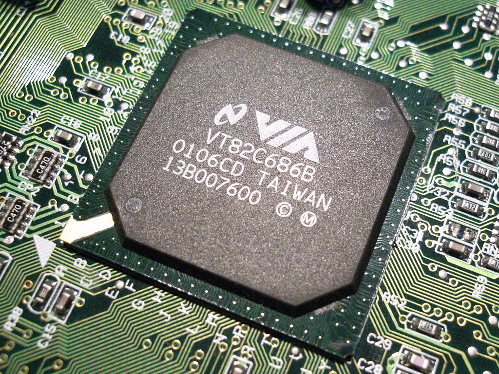 Southbridge VIA VT82C686B